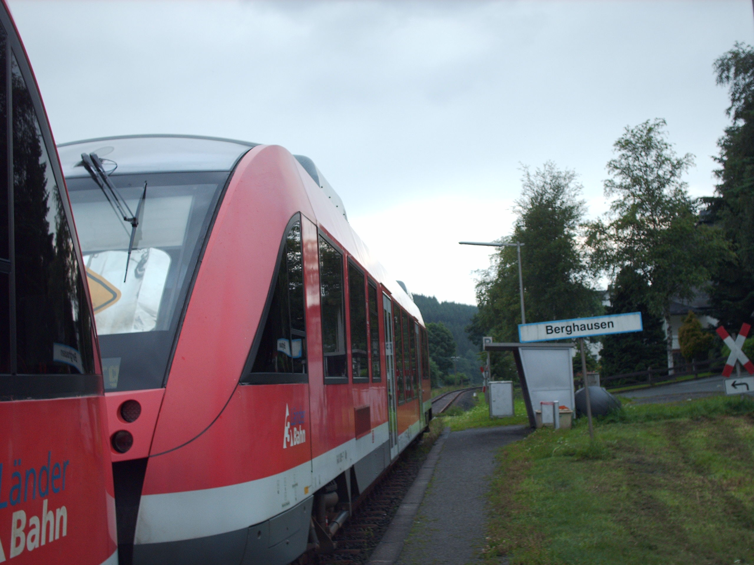 Berghausen station, Bad Berleburg, Germany check usage